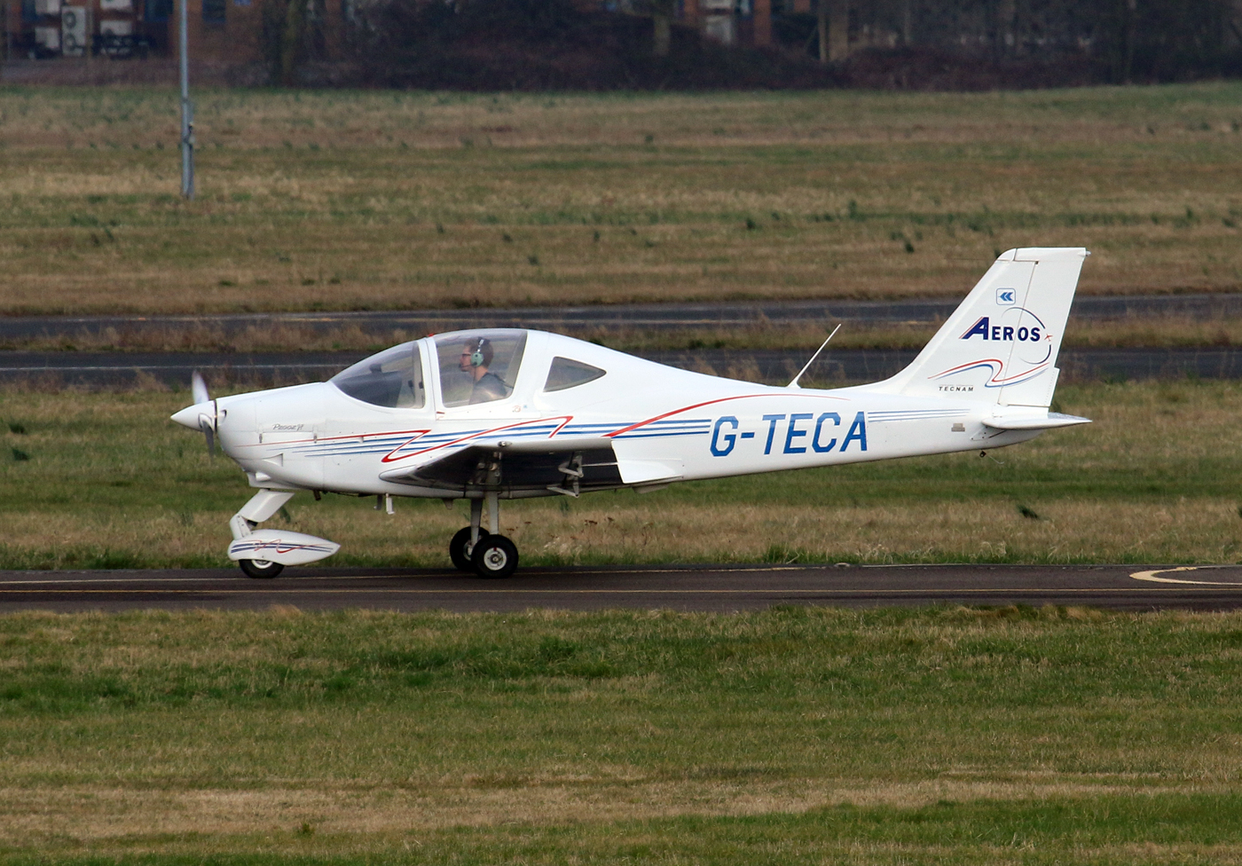 Staverton 14 March 2015